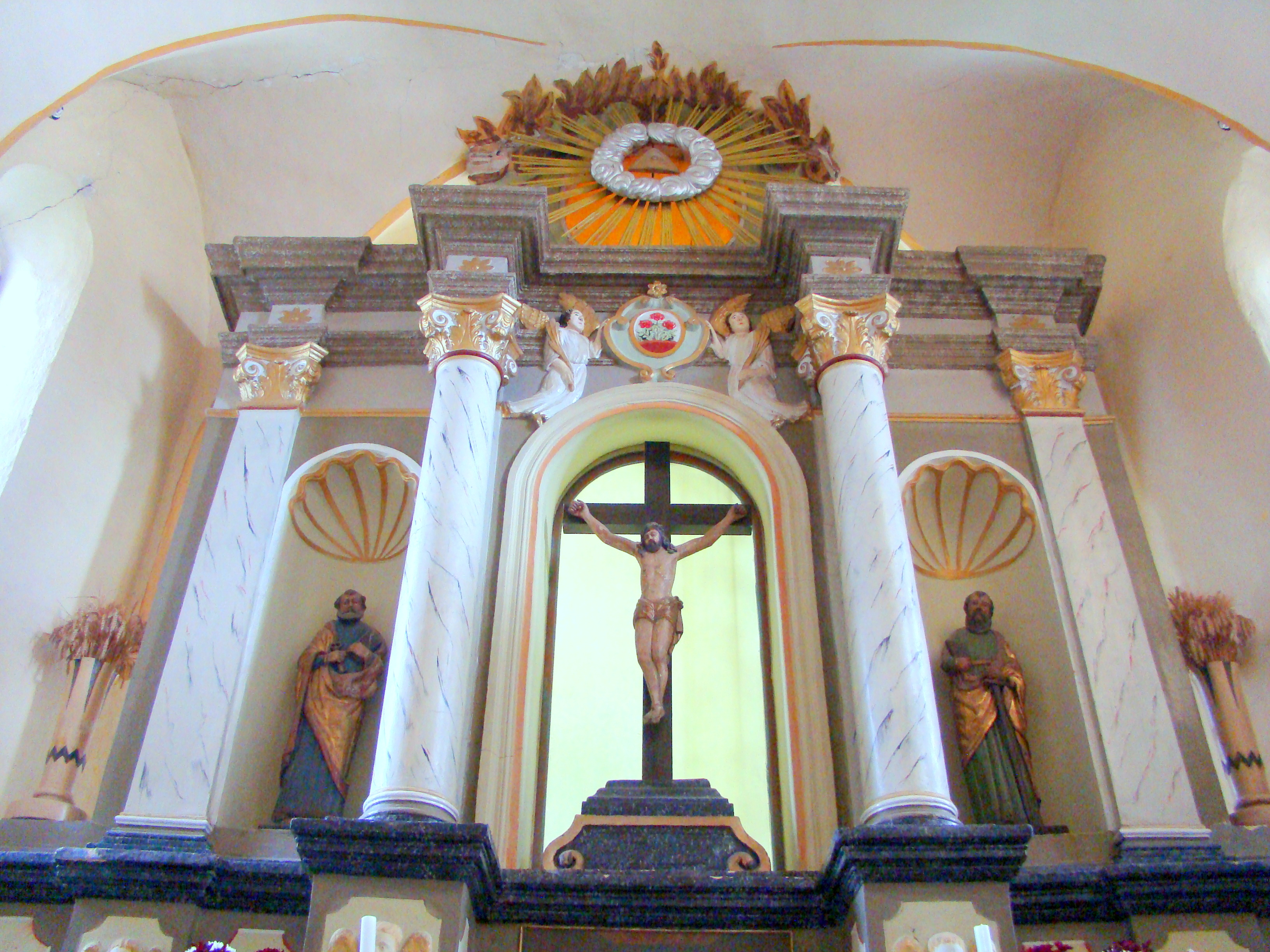 Lutheran church in Râșnov, Braşov County, Romania